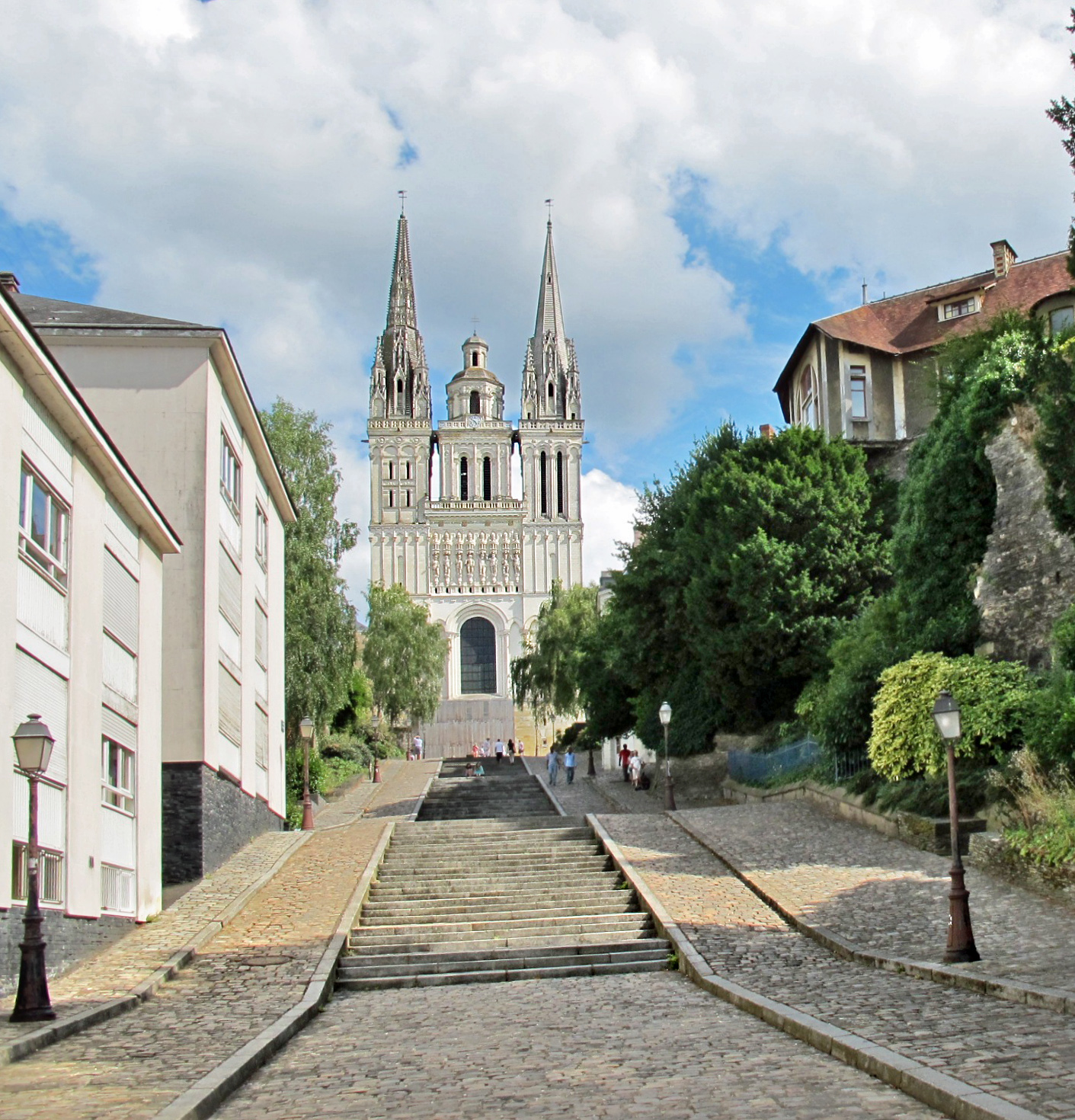 La cathédrale Saint-Maurice d'Angers.